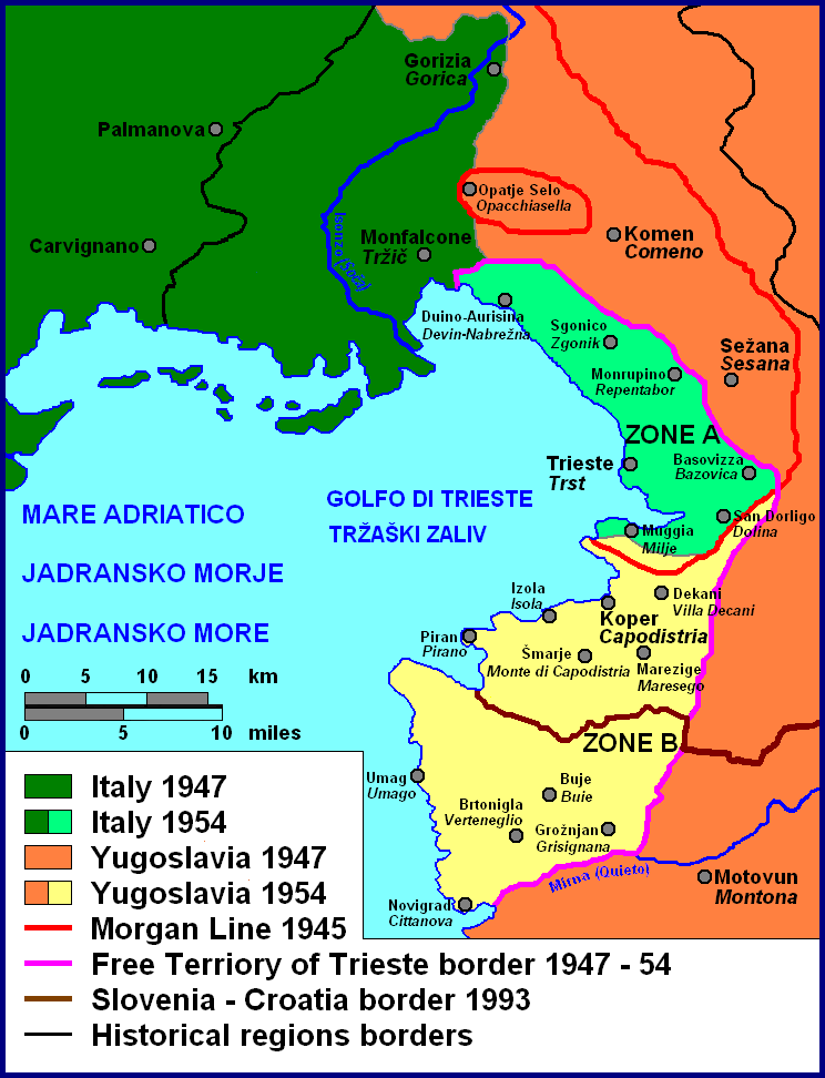 Trieste, map of history 1945 - 1993